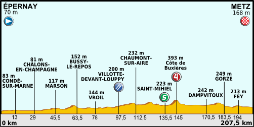 Profil of the 6th stage of the Tour de France 2012